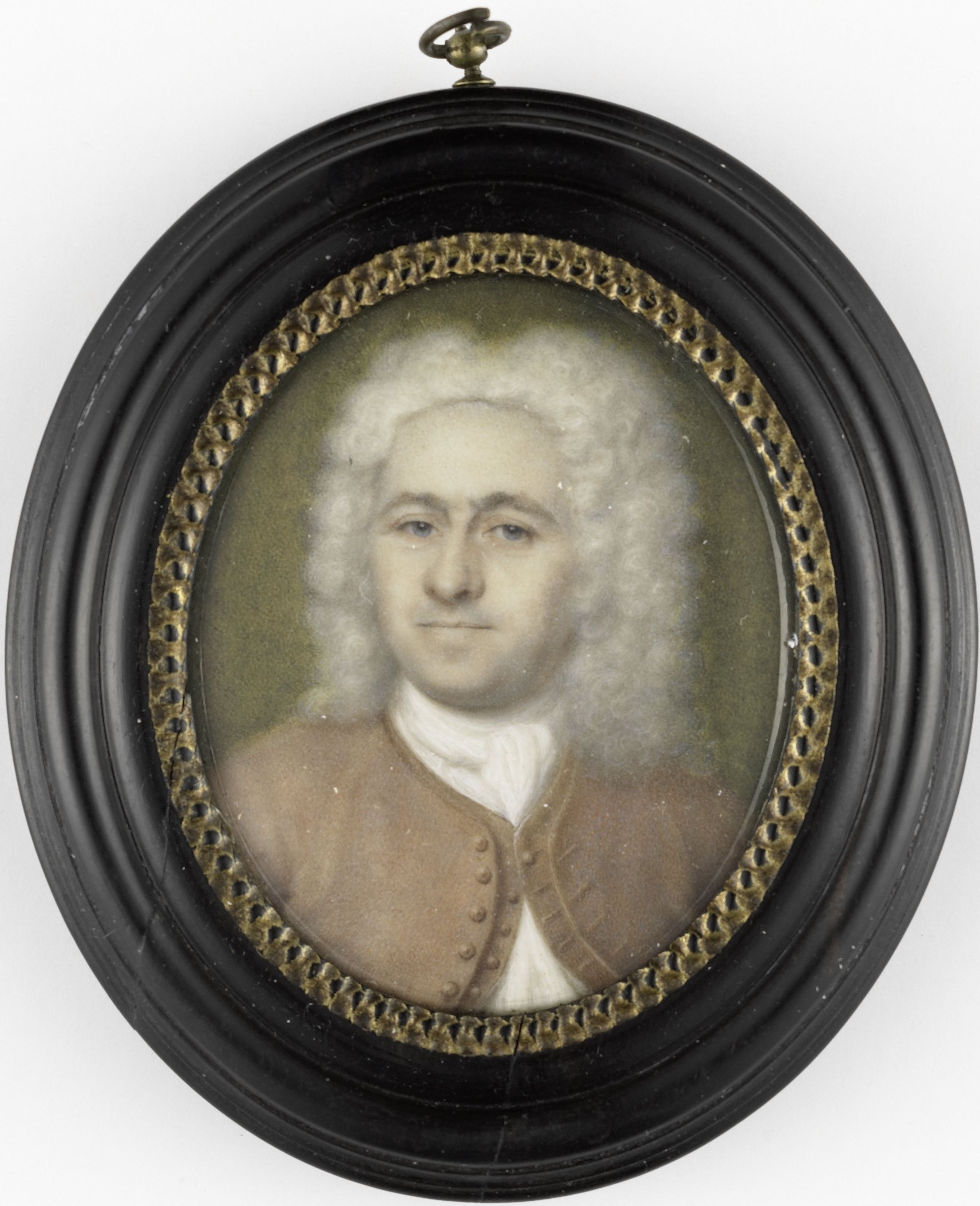 Miniature portrait of Herman Wolters (1682-1756), made by his wife Henriëtte Wolters-van Pee